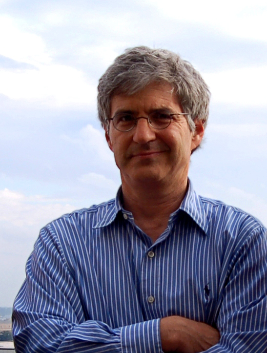 Michael Isikoff in October, 2007.